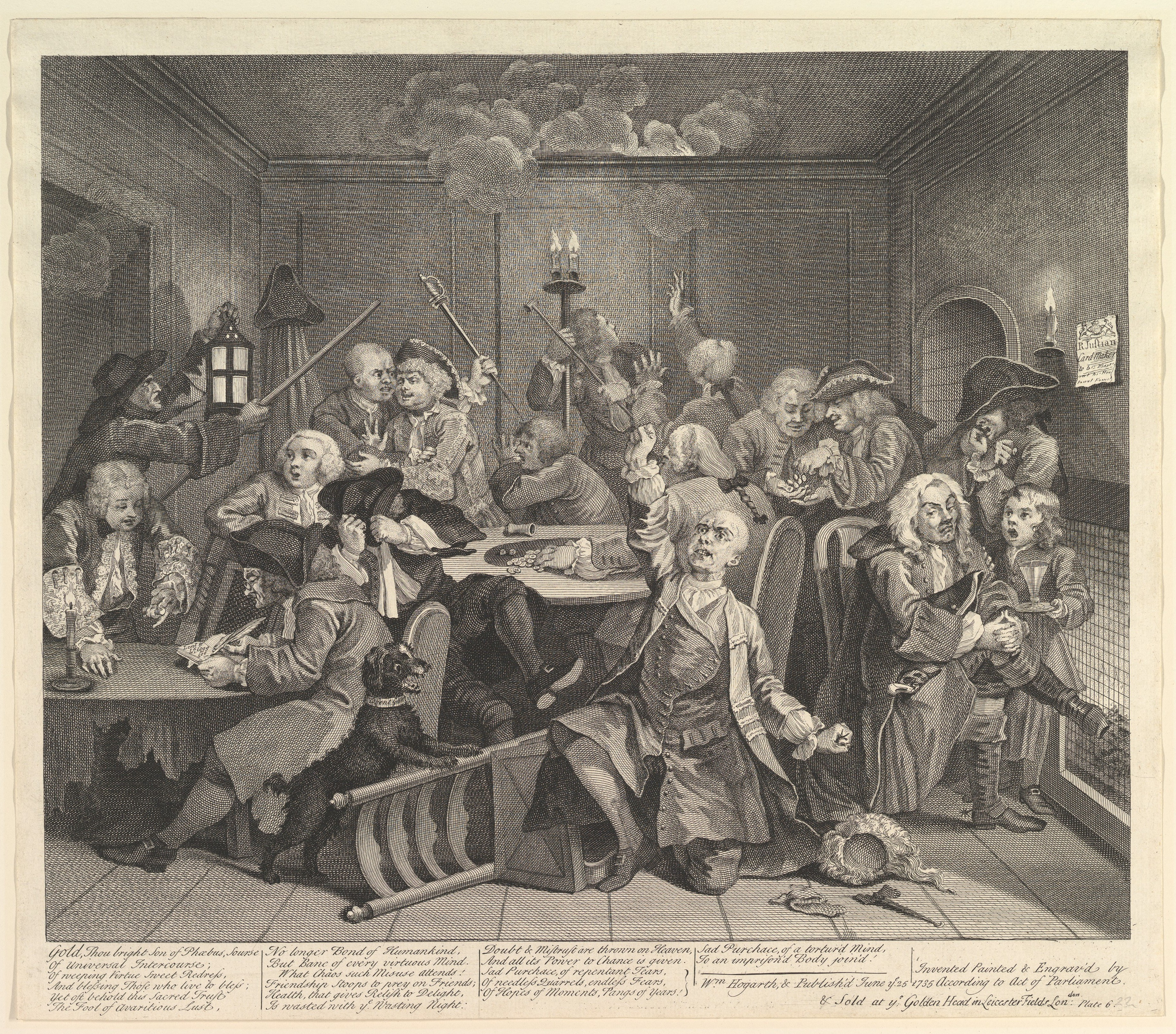 Print; Prints